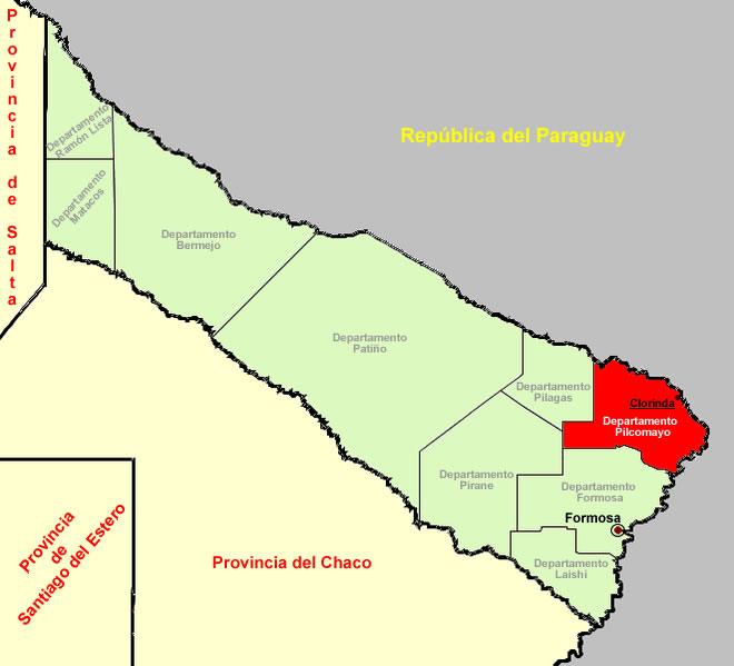 Detailed Formosa (Argentina) Map with description of the localization of Clorinda city also includes apartments names.